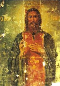 Saint Roman of Kirzhach, Russian orthodox saint and wonder-worker (died in 1392). Founder and first hegumen of Annunciation Monastery in Kirzhach.